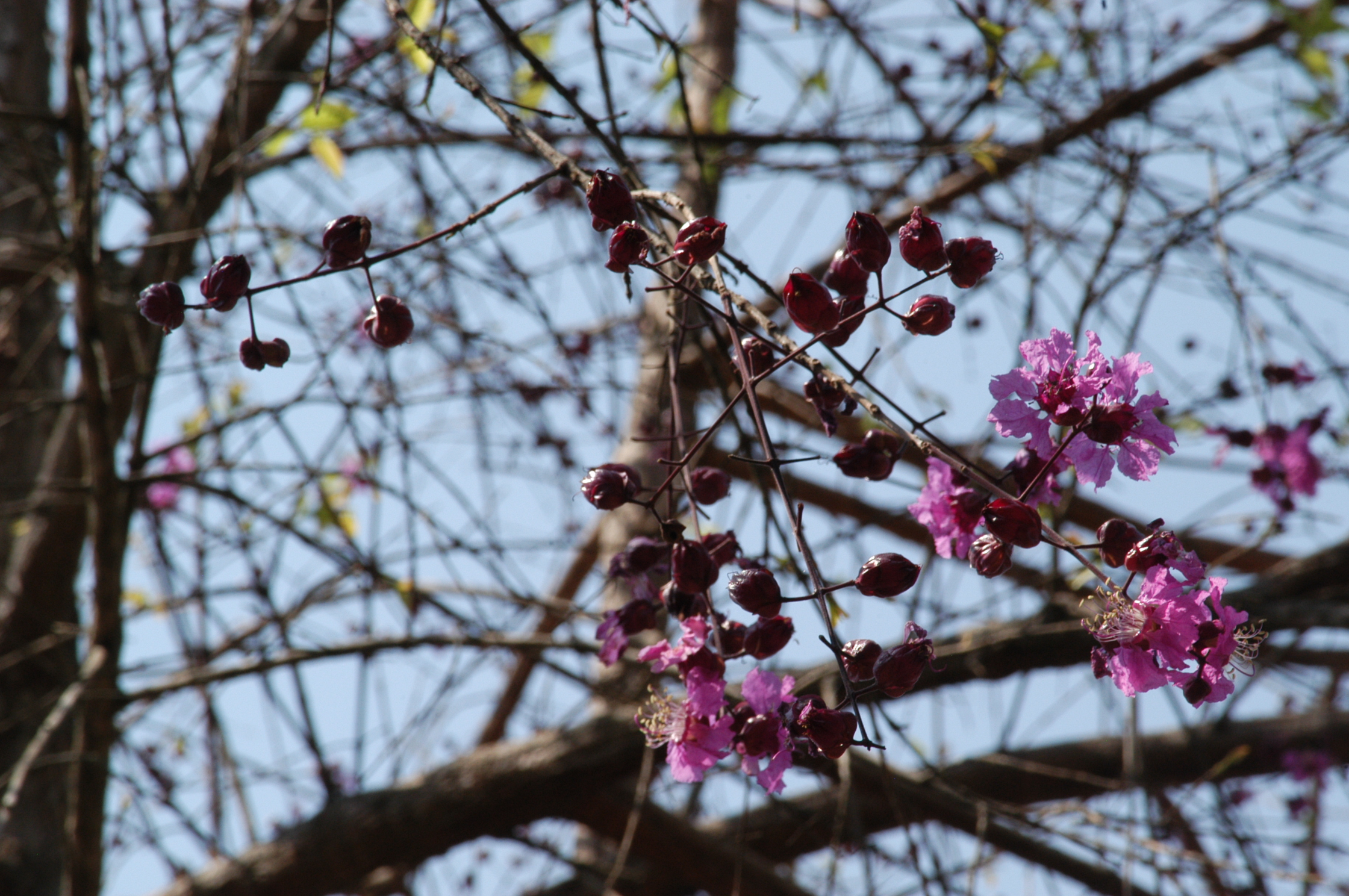 jacarandá tree